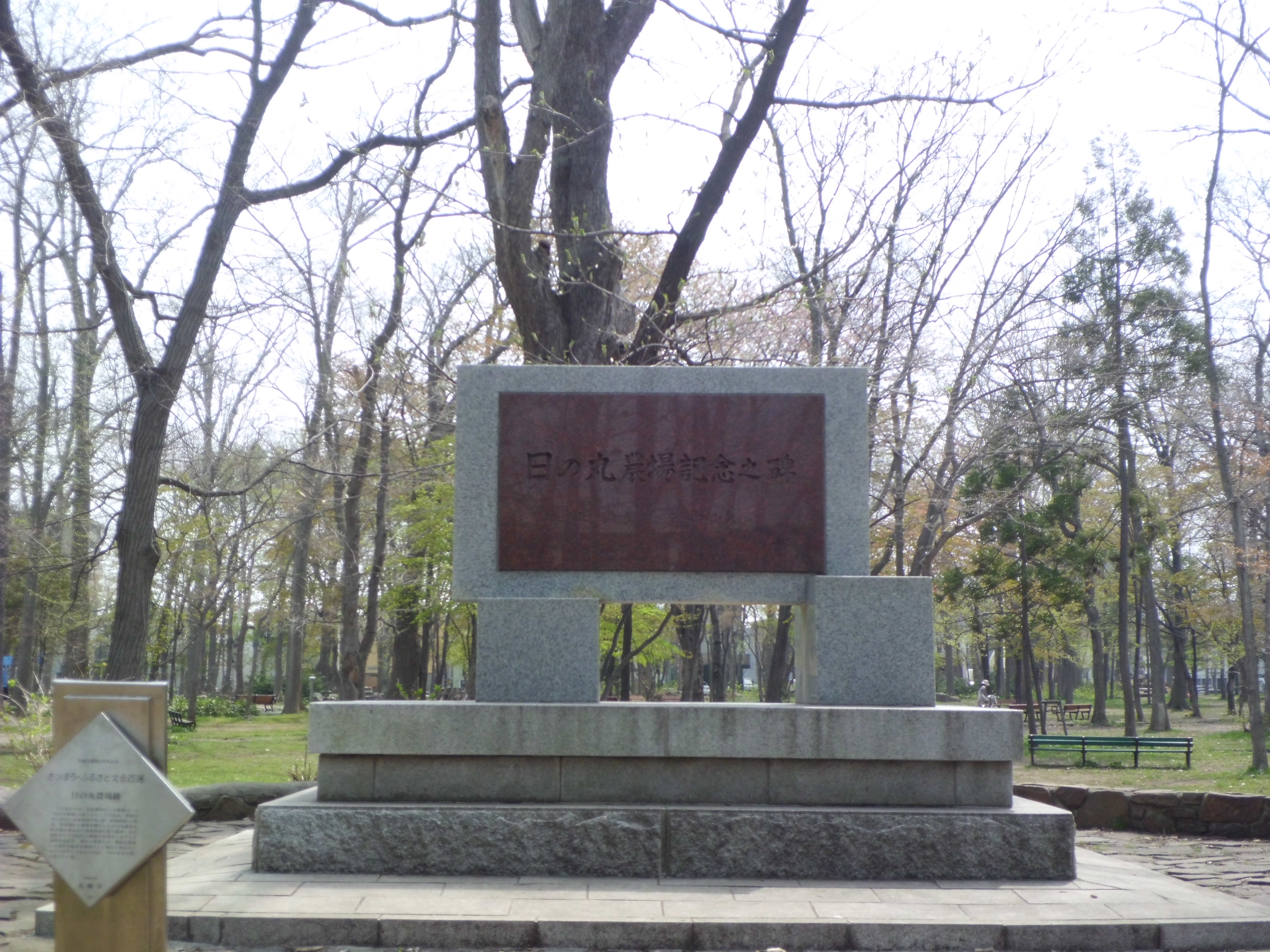 Monument to Hinomaru Farm